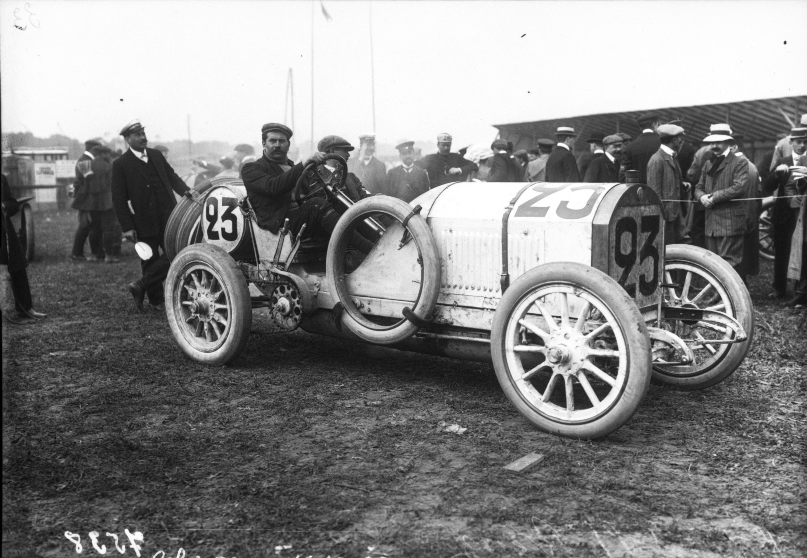 René Hanriot in his Benz at the 1908 French Grand Prix at Dieppe.